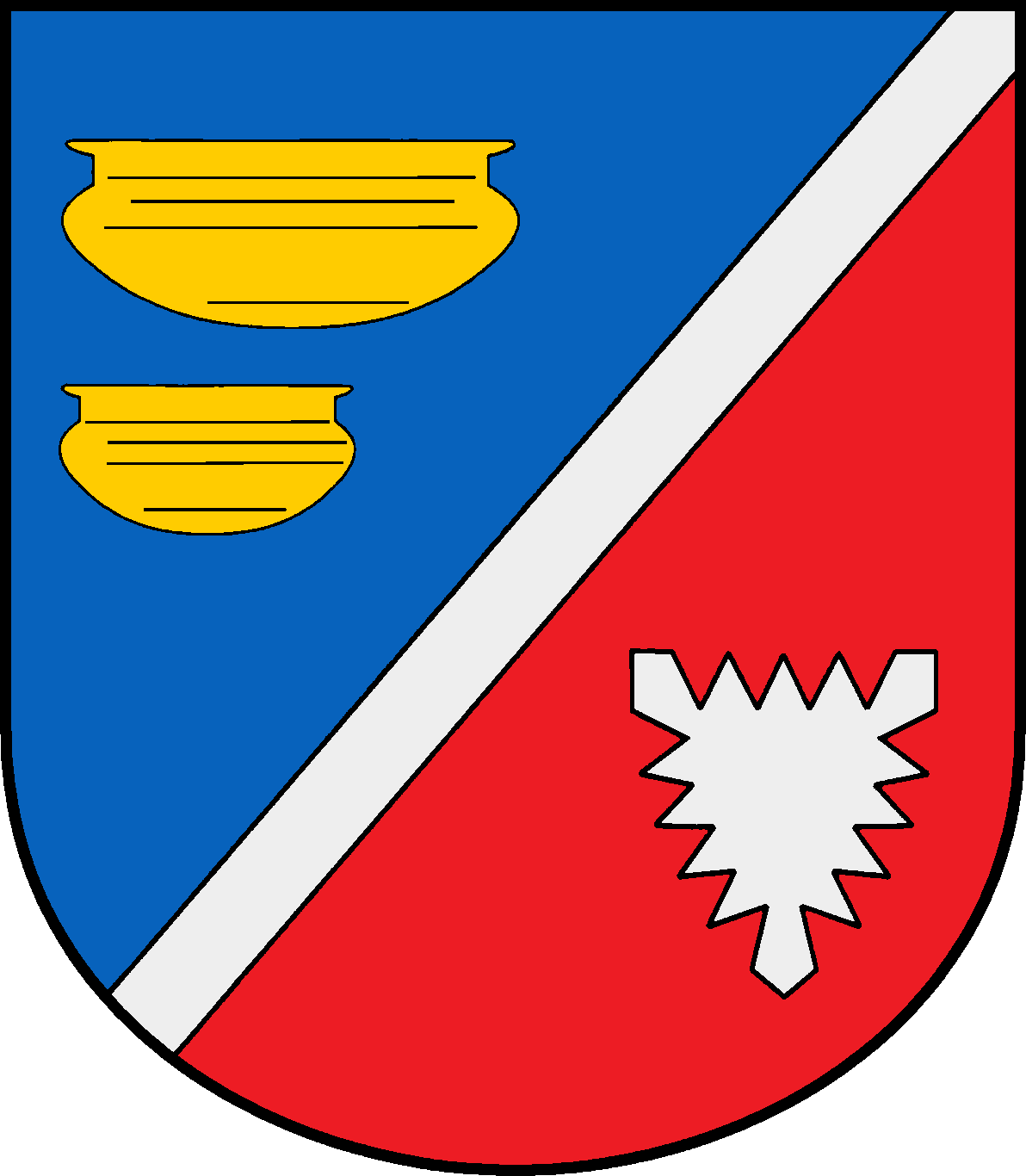 Coat of arms of the municipality Stolpe in Schleswig-Holstein, Germany.